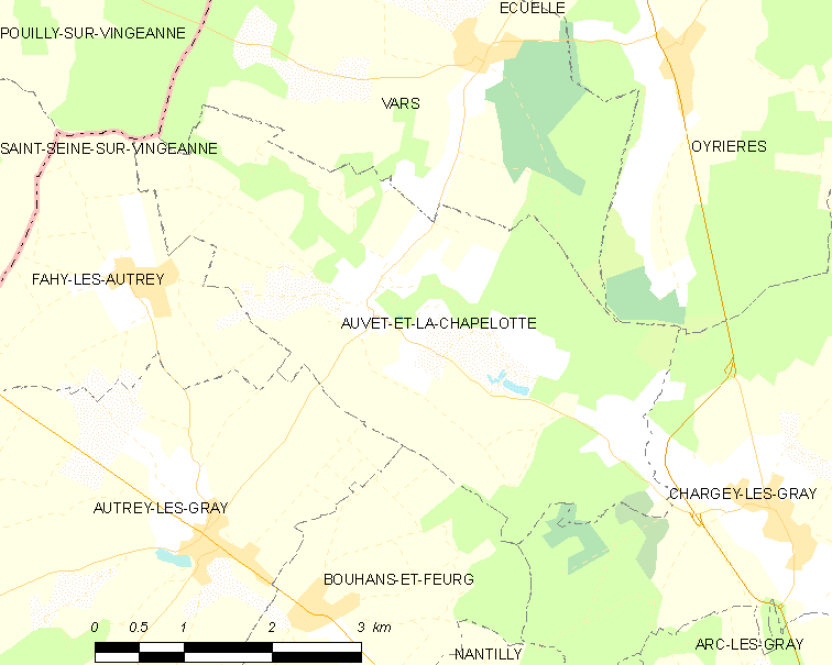 Map of French municipality